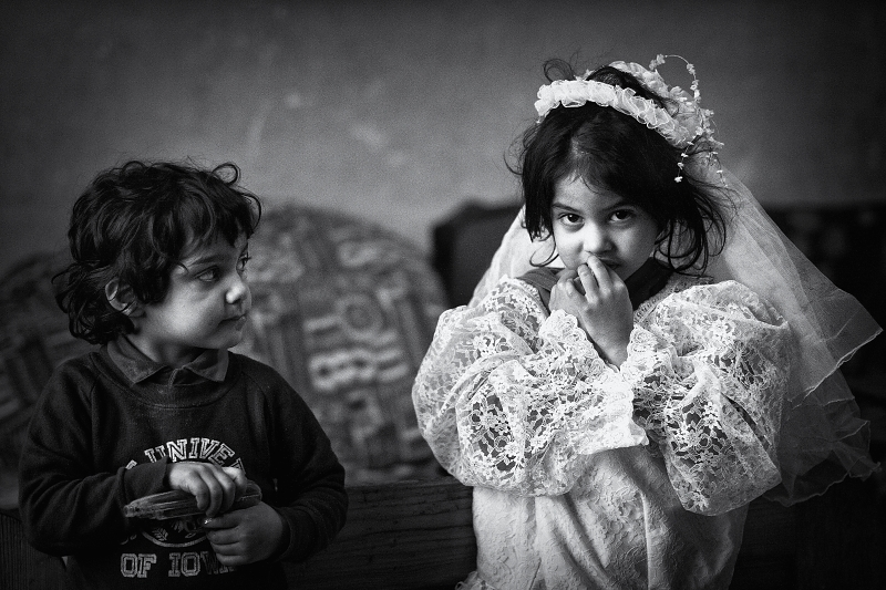 Tamara Černá Personality rights warningAlthough this work is freely licensed or in the public domain, the person(s) shown may have rights that legally restrict certain re-uses unless those depicted consent to such uses. In these cases, a model release or other evidence of consent could protect you from infringement claims.